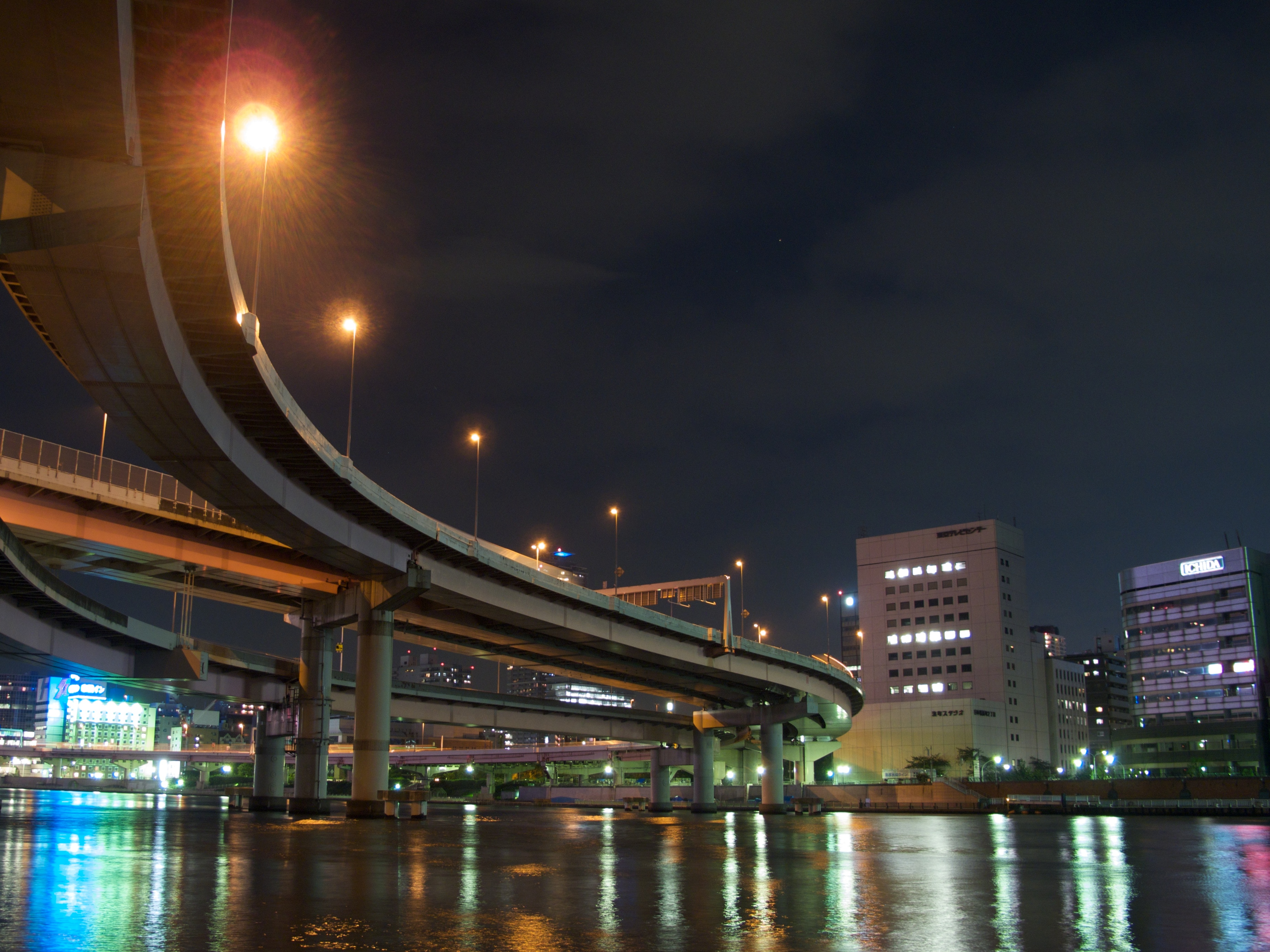 A view of the Shuto Expressway's #6 and #7 as part of the Ryogoku Ohashi crossing the Sumida river taken at night.